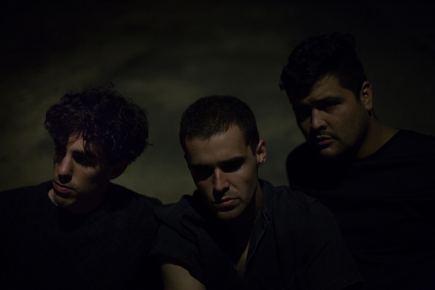 A 2015 photo of Australian minimal soul band Movement.